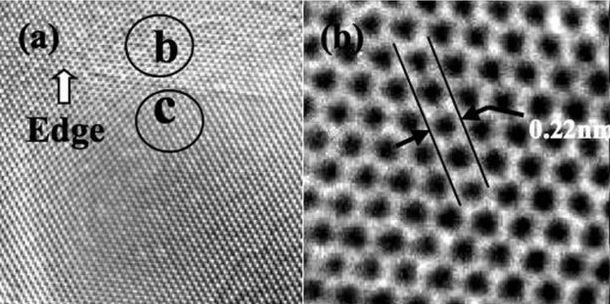 (a) Typical HRTEM image and (b) further magnified HRTEM image of selected area (b) of a boron nitride nanosheet